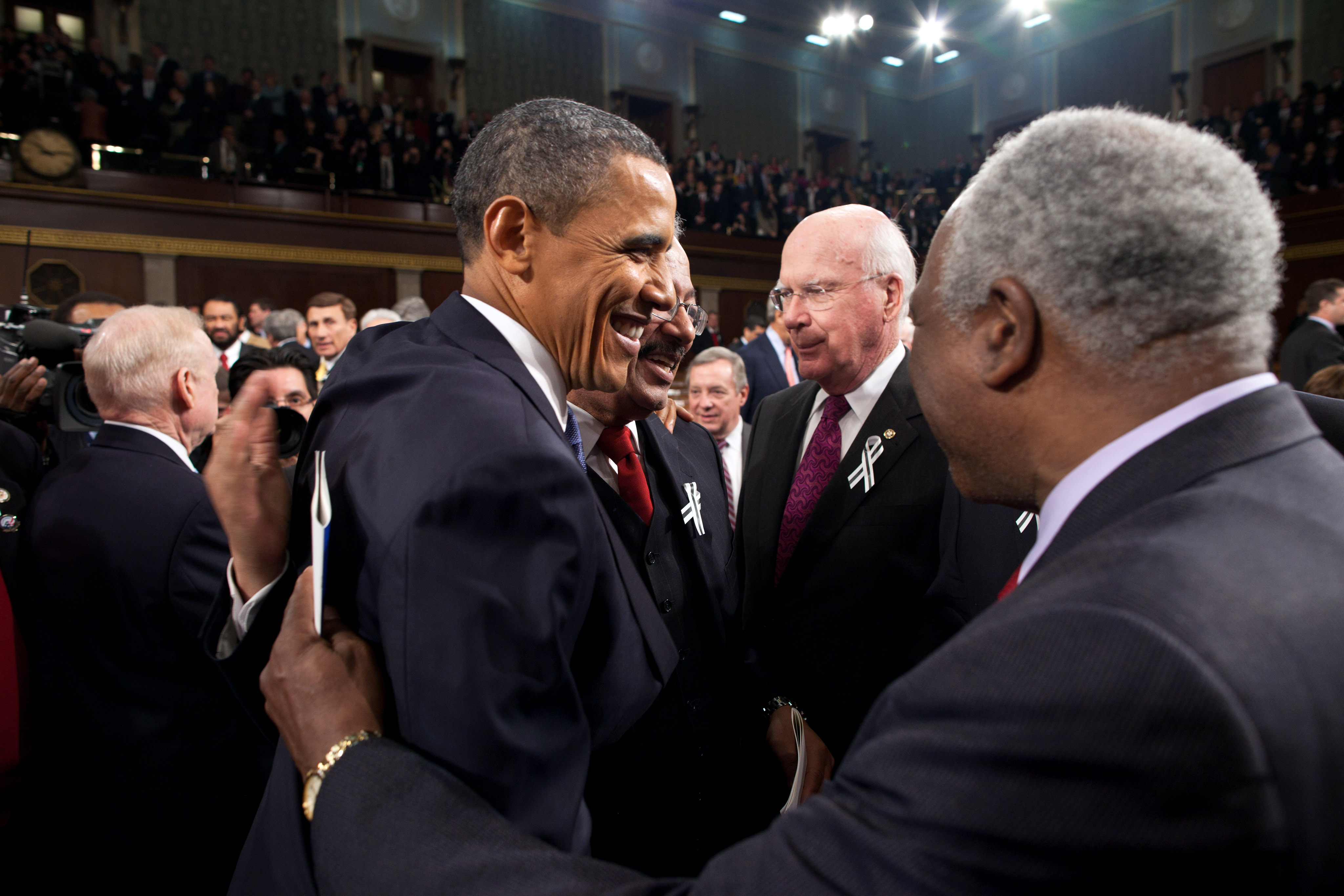 U.S. President Barack Obama greets (left to right) Representative Chaka Fattah, Senator Patrick Leahy, and Representative Danny K. Davis on the floor of the House Chamber in the U.S. Capitol after delivering the 2011 State of the Union Address.